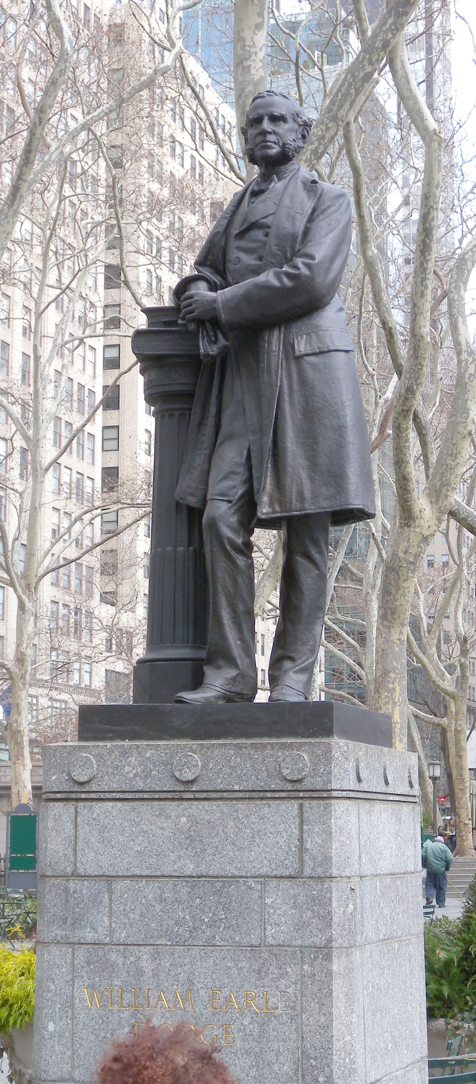 Looking east at statue of William E. Dodge.